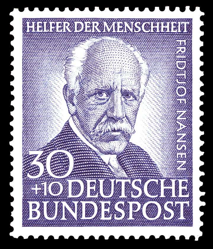 Social welfare stamp series 1953, Fridtjof Nansen (1861-1930) Graphics by Hermann Zapf Ausgabepreis: 30+10 Pfennig First Day of Issue / Erstausgabetag: 2. November 1953 Michel-Katalog-Nr: 176